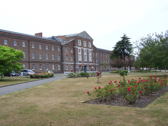 Haslar hospital Taken before it closed